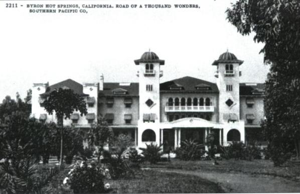 The 2nd Byron Hot Springs Hotel Building, built in 1901, burned down 1912